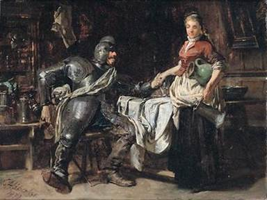 The Knight and the Maid (1879)